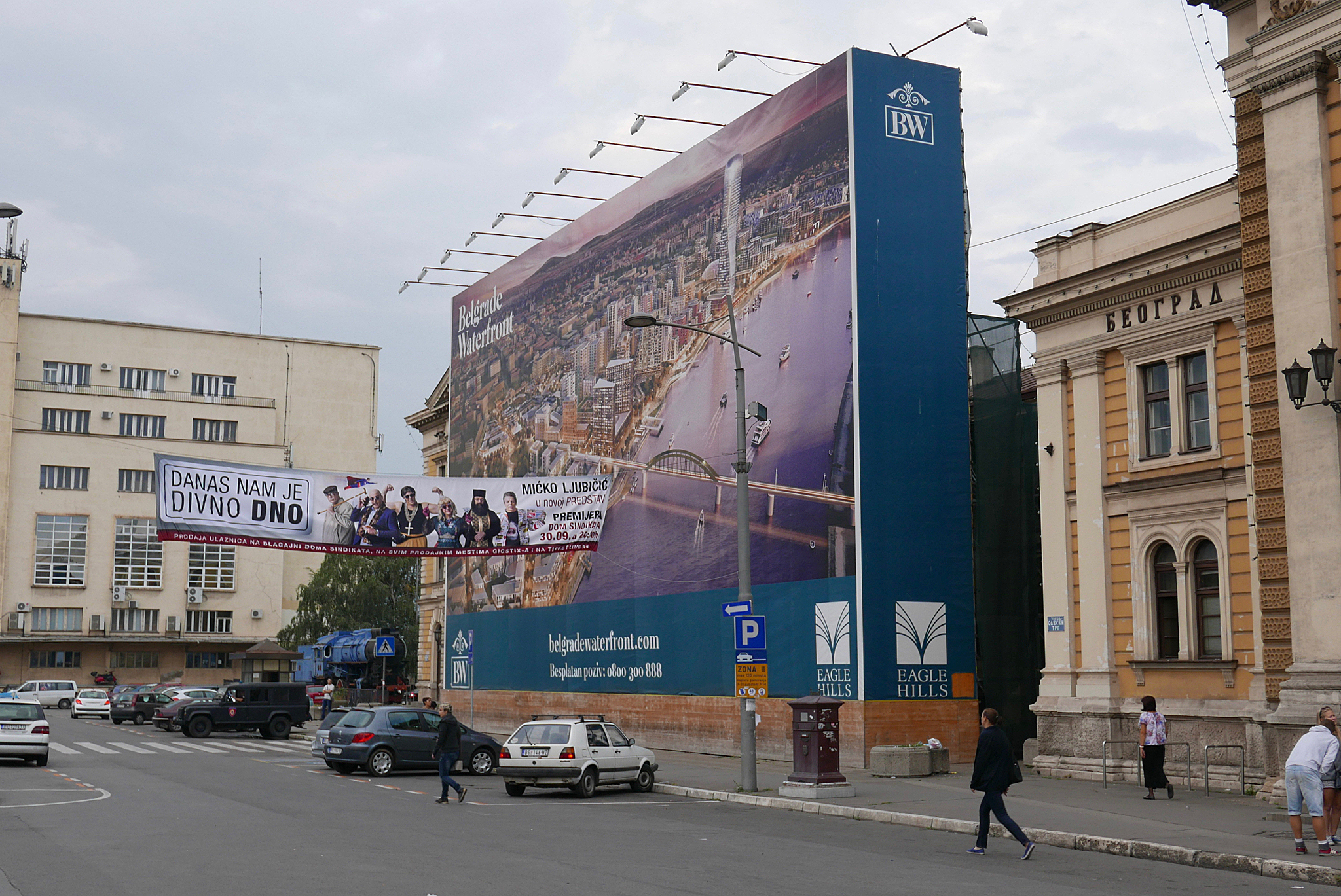 Belgrade Waterfront advertisement at the main station.